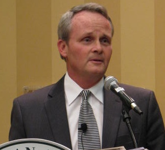 Lawrence Reed speech.